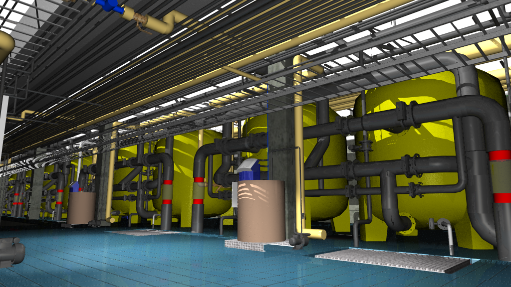 MagiCAD Piping